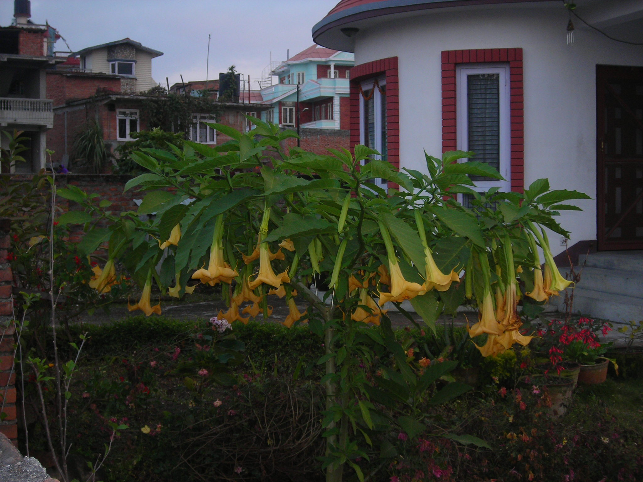 Dhokre Phool, a jungle flower found in Nepal.